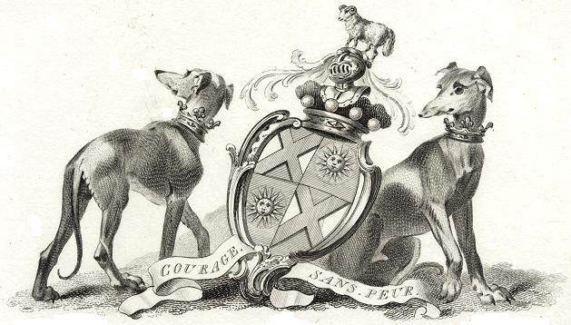 Arms of the Viscount Gage. Blazon: Quarterly – 1 and 4: Per saltire Azure and Argent a saltire Gules; 2 and 3: ___. Source: English Peerage, Charles Catton 1790